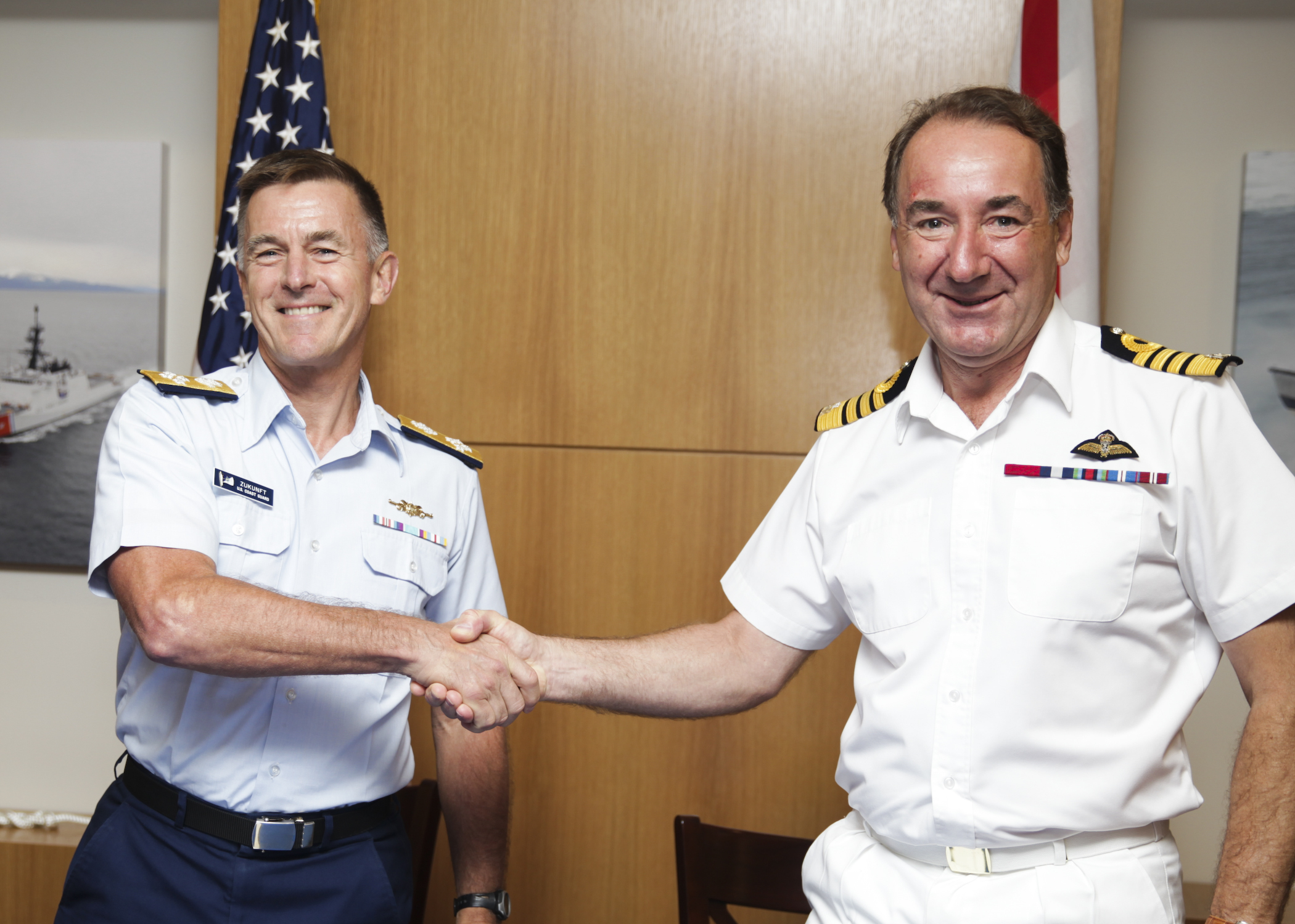 The First Sea Lord and Chief of Naval Staff of the British Royal Navy, Adm. Sir George Zambellas, right, meets with the Commandant of the U.S. Coast Guard, Adm. Paul F. Zukunft, during a visit to the Coast Guard Headquarters in Washington, D.C., July 29, 2014. Zambellas is taking part in the Commandant of the Marine Corps' Counterpart Program, which invites foreign military leaders to visit the United States and interact with U.S. military leaders. (U.S. Marine Corps photo by Cpl. Michael C. Guinto/Released)